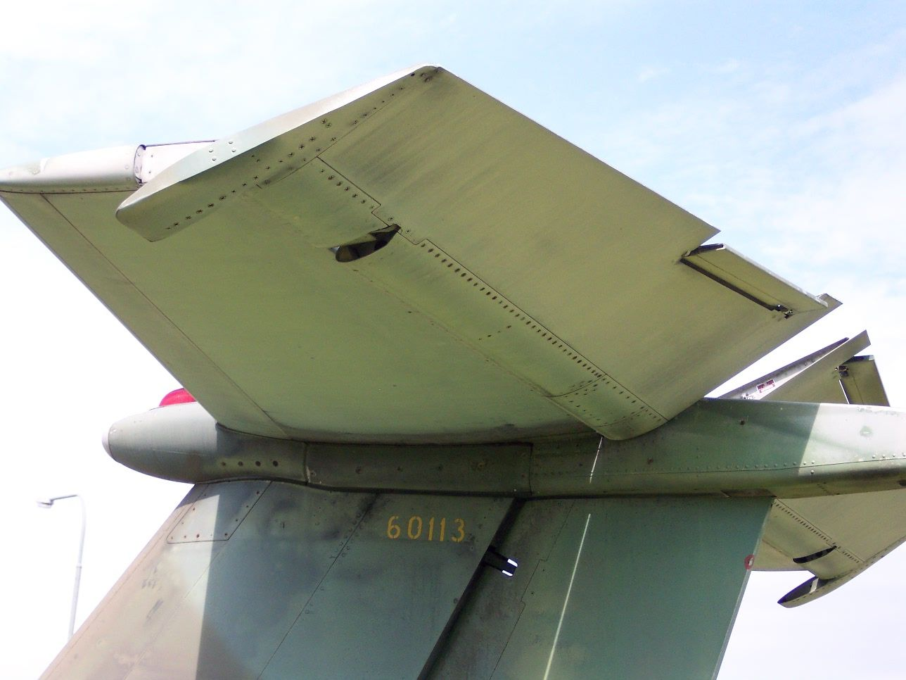 Saab 105 aka Sk60A tail.